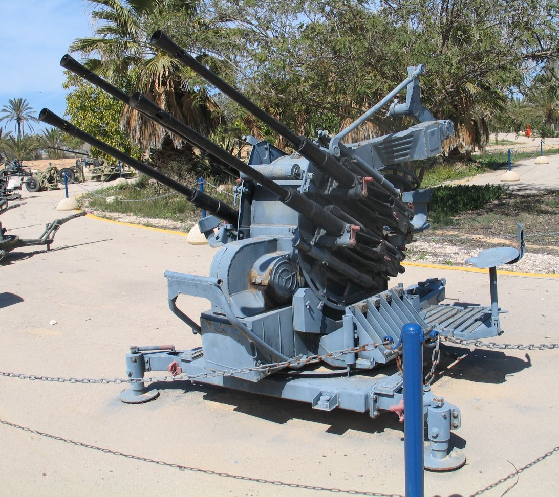 Description: Flakvierling 38 20 mm AA gun at Muzeyon Heyl ha-Avir, Hatzerim airbase, Israel. 2006. Source: Photo by me, User:Bukvoed.